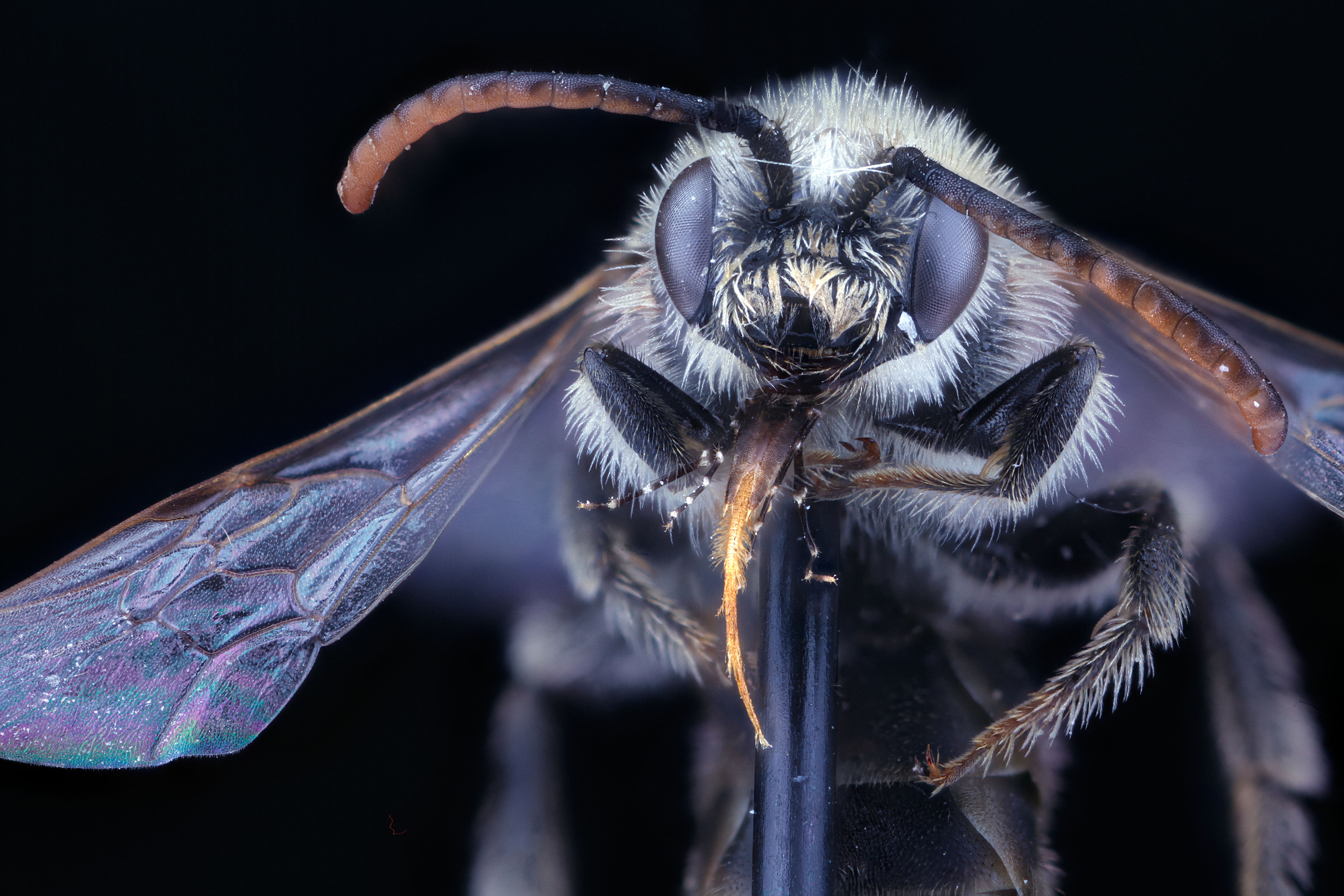 Dufourea marginata, male, Isle Royale, Michigan